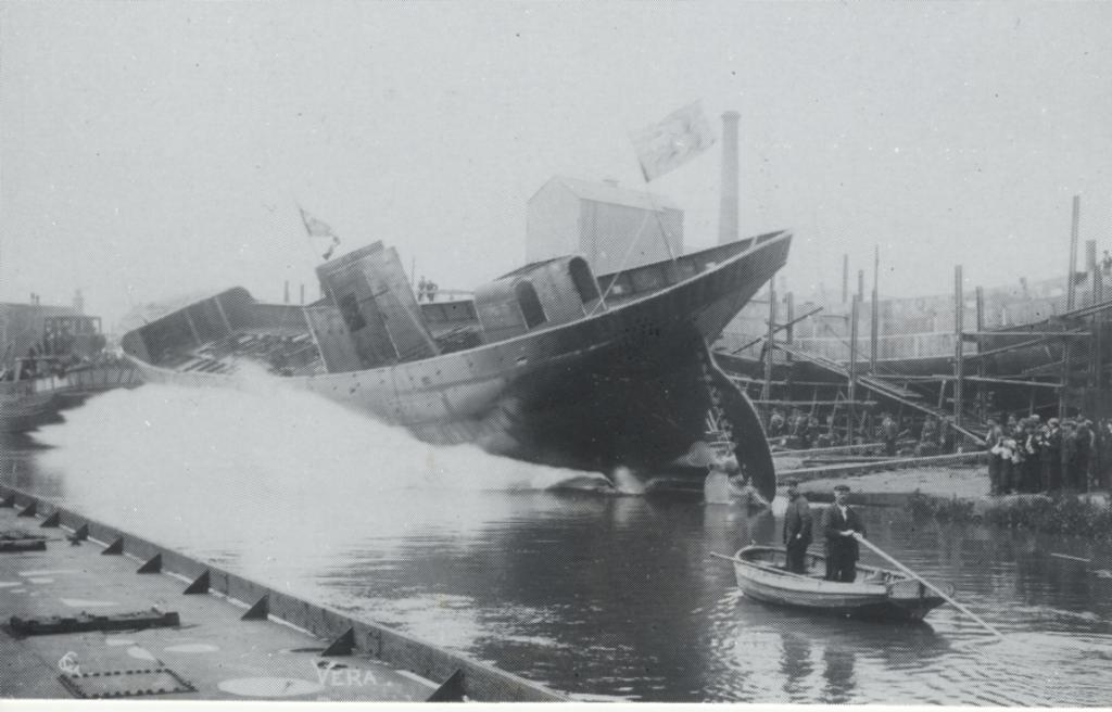 The steam trawler ‘Vera’ was launched on 27th July 1907. In 1915 she was requisitioned by the Royal Navy and as a minesweeper. Having returned to the fishing industry in 1919 she was wrecked at Mydalssandur, South Iceland in 1925. This particular image shows an example of the sideways launch method, unique to Cook, Welton & Gemmell's Grovehill shipyard at Beverley. (Why not try searching our East Riding of Yorkshire Map for more historic images? ) (Copyright) We're happy for you to share this digital image within the spirit of Creative Commons. Please cite ' ' when reusing. Certain restrictions on high quality reproductions and commercial use of the original physical version apply. If unsure please